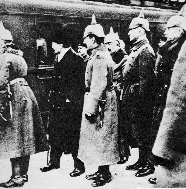 Soviet delegation with Leon Trotsky greeted by German officers at Brest-Litovsk, press photo.